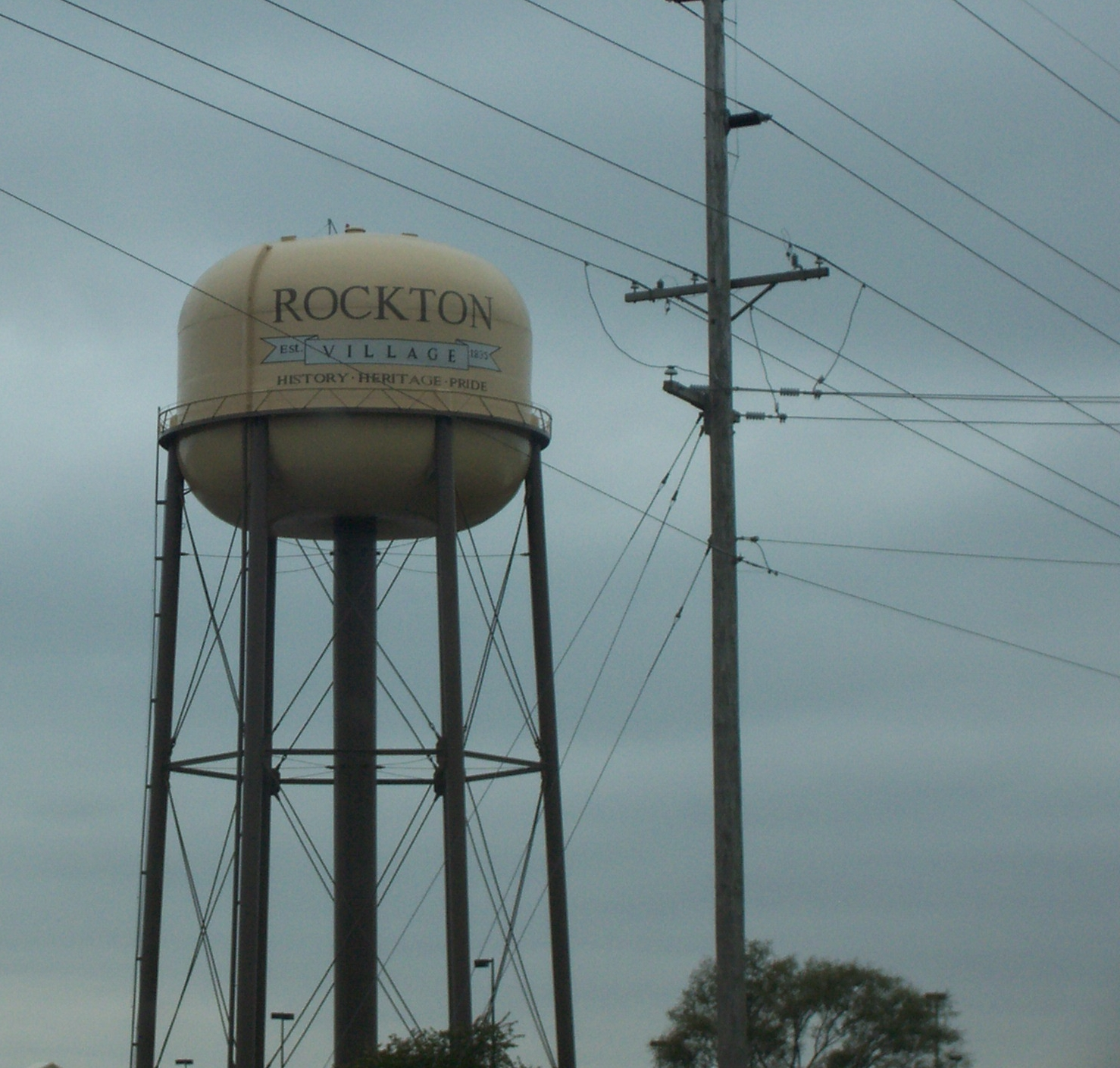 The water tower for Rockton, Illinois at the north terminus of Illinois Route 251.